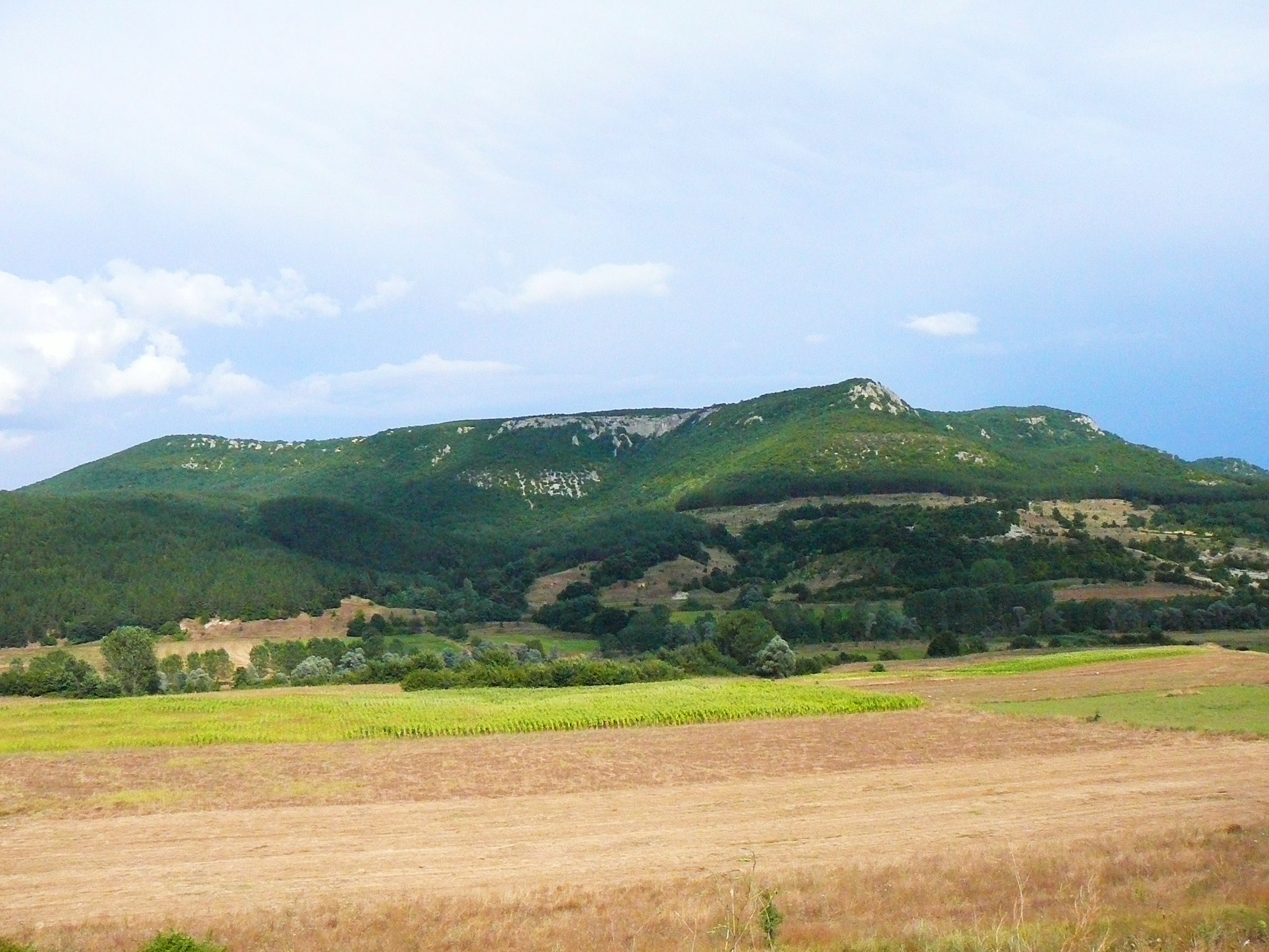 Rhodope Mountains, Bulgaria